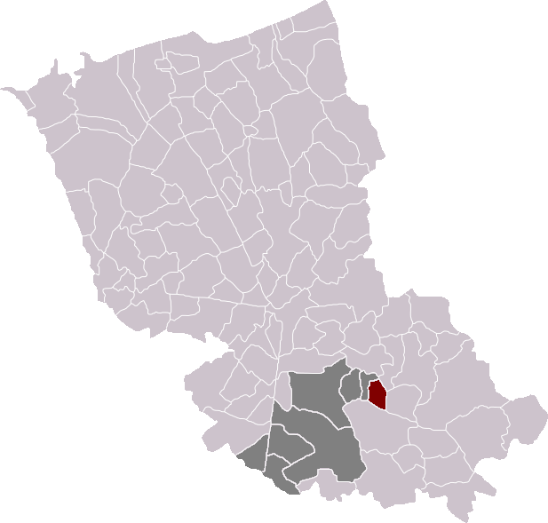 Carte de localisation de la commune de Strazeele / Map of localisation of the municipality of Strazeele